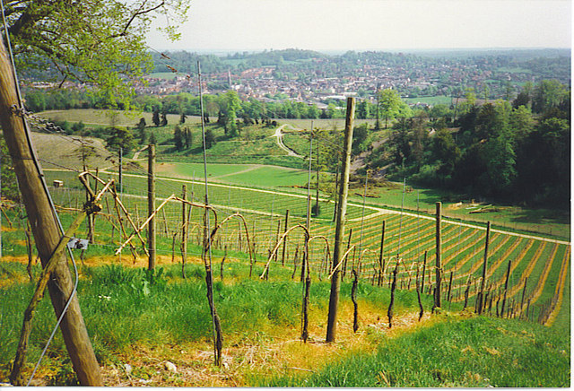 Denbies Vineyard The rootstocks are trained against poles and wires. In the distance is Dorking.